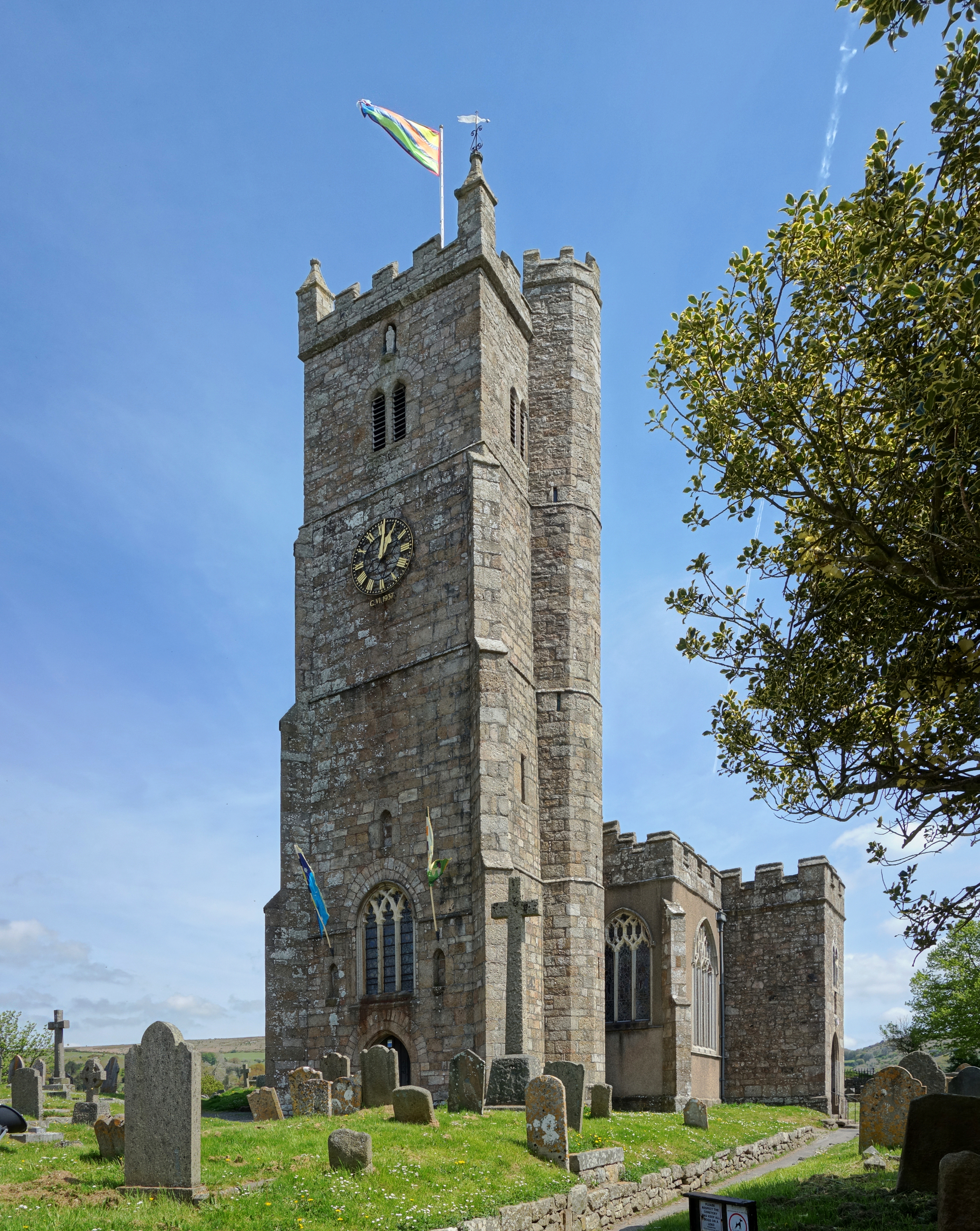 Tower of St Andrew's Church, Moretonhampstead, Devon.